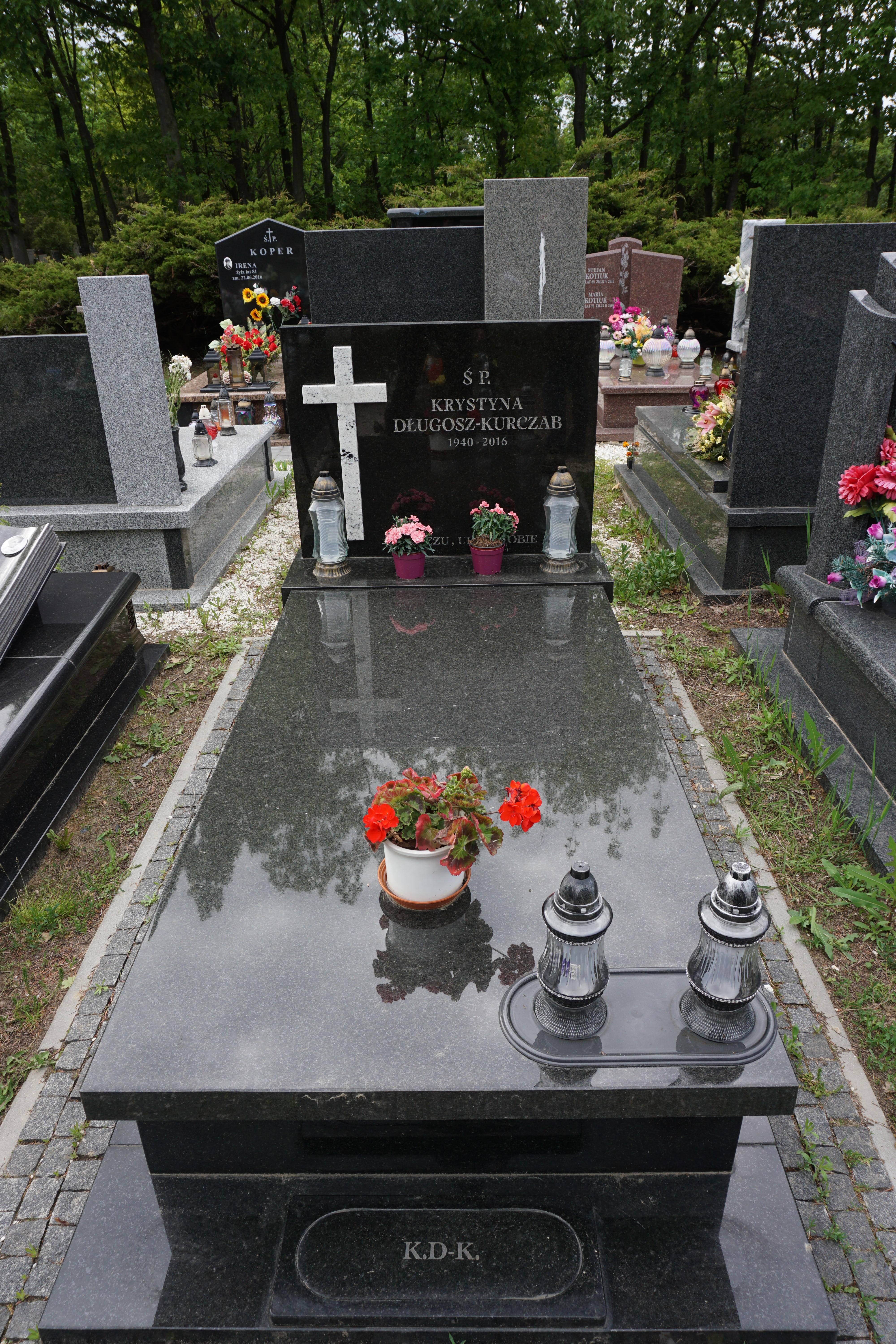 The grave of Krystyna Długosz-Kurczabowa at the North Municipal Cemetery in Warsaw (section B-XV-1, row 2, grave 16)